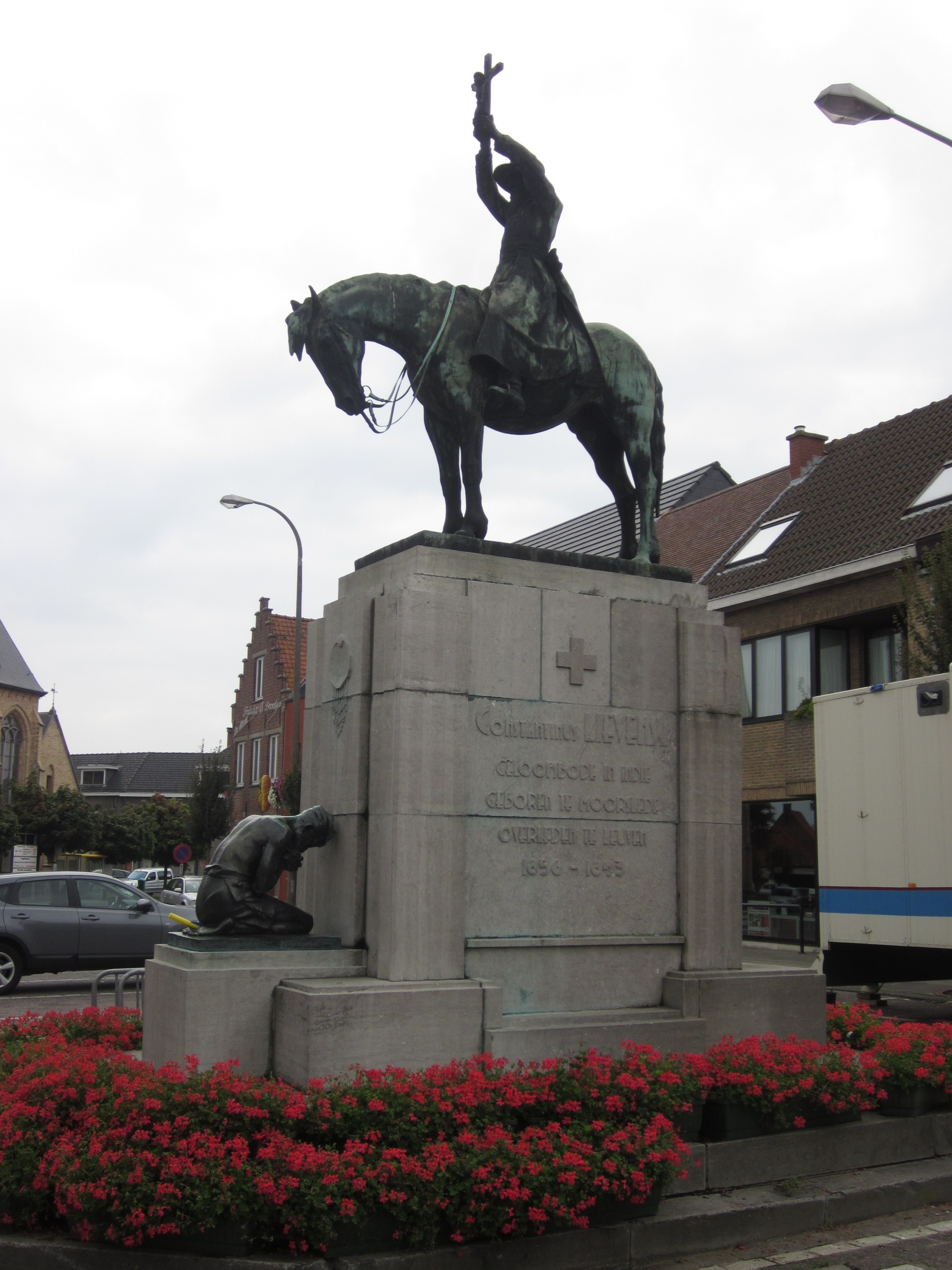 Statue of Constant Lievens (Flemish Jesuit priest and missionary in India) by sculptor Josuë Dupon, Moorslede (Belgium).